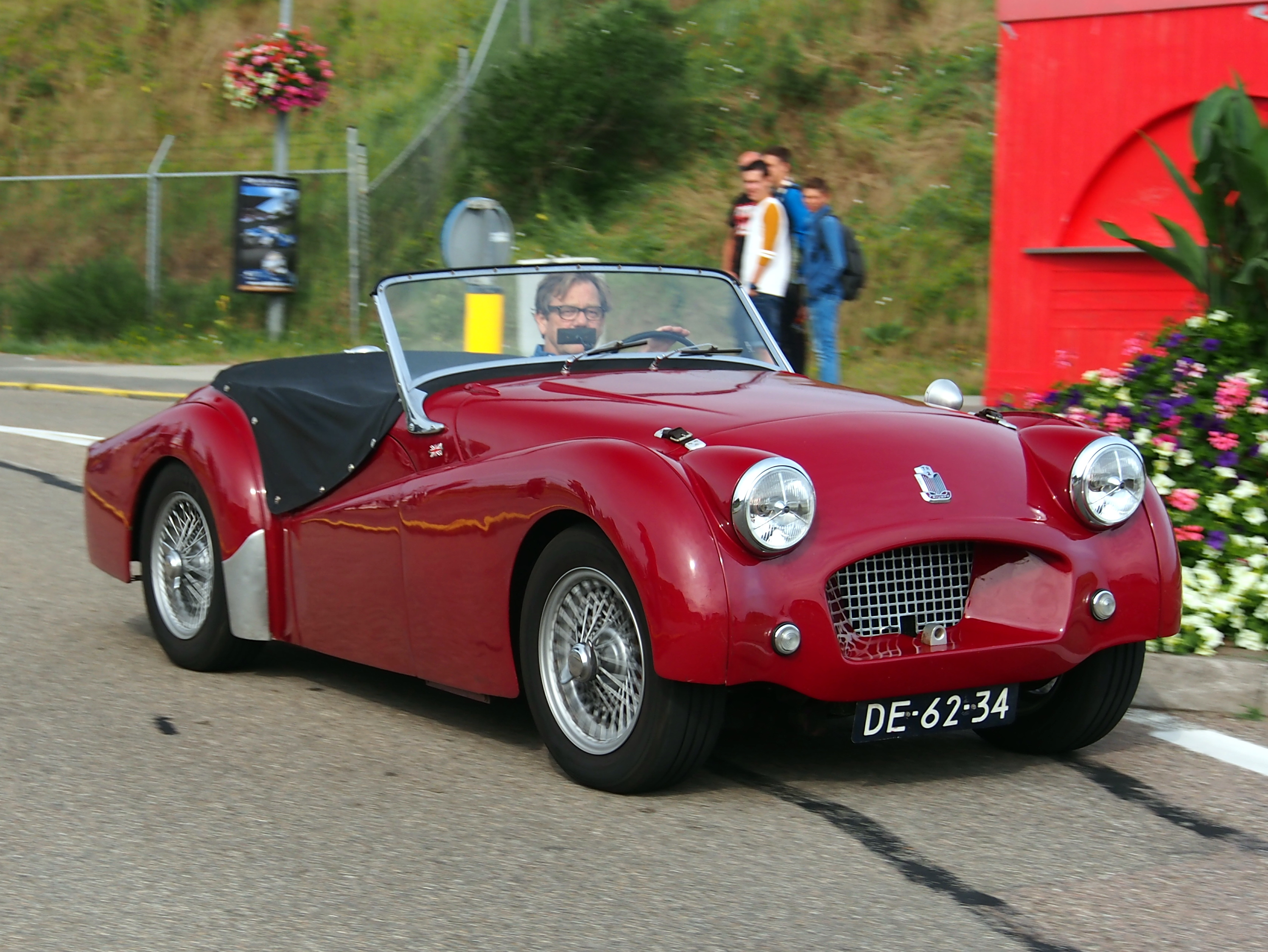 Photographed at the Nationaal Oldtimer Festival Zandvoort 2014, The Netherlands.